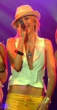 Cropped version of Image:Atomic Kitten in concert.jpg showing Jenny Frost, since the original picture is licensed under GFDL it allows for modifications. Picture was taken in 2005 during a concert with Atomic Kitten in Poland.